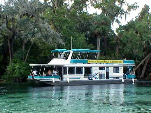 This is a houseboat from our rental company (i am an employee). We took the picture. This is the Miss Mary. The picture was taken at Silver Glenn Springs, just off Lake George, in Florida.